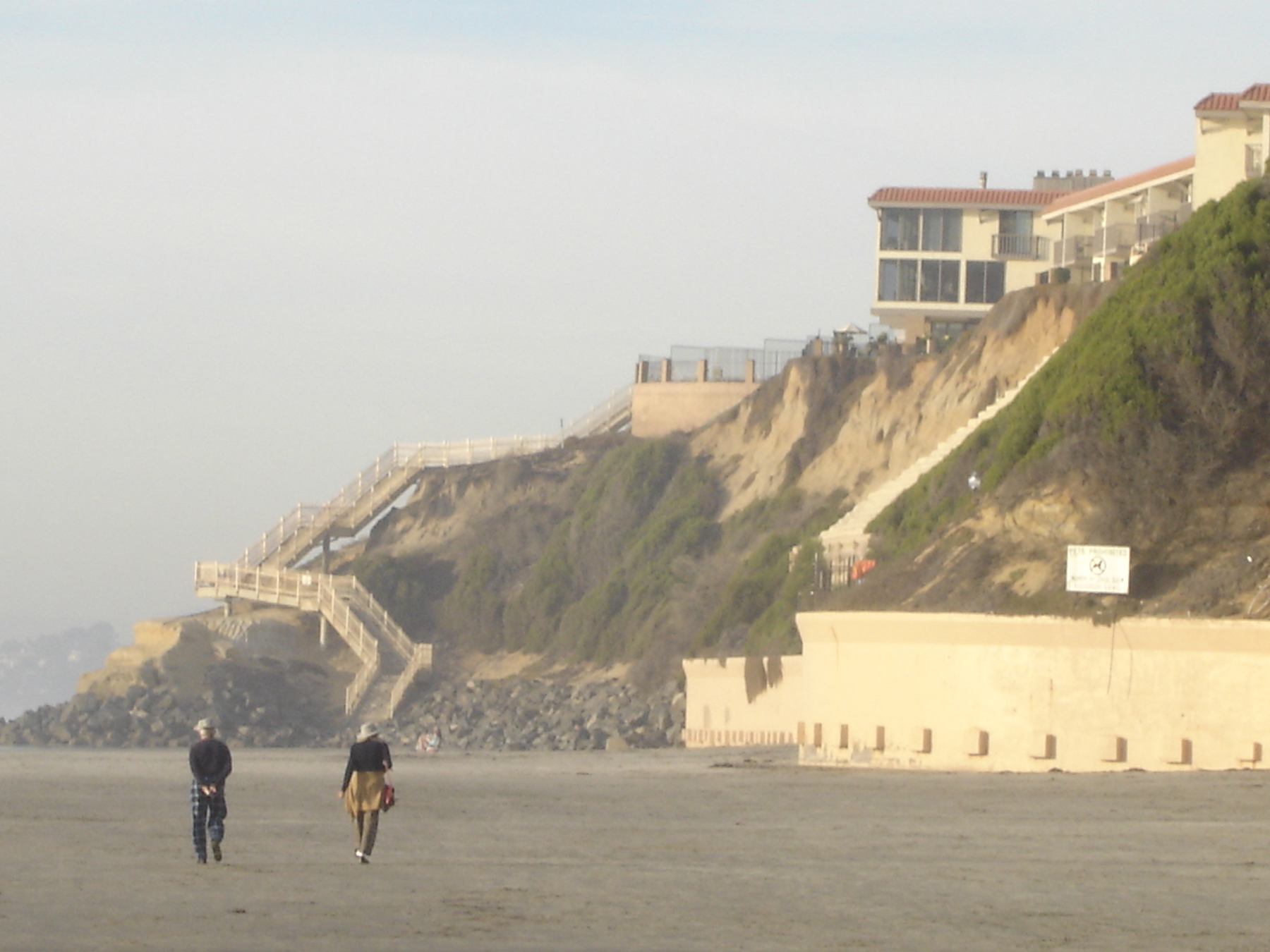 Elderly Couple Strolling North of What is Known as "Dog Beach" in Del Mar, Calif., USA, Photo Taken During a Negative Low Tide Afternoon in November 2006 When There is Ample Sand and Room to Explore Down to the Water's Edge. In the Distance is What is Known as Rock Piles, a Staircase Beach Access Point Reached Via a Discrete Public Sidewalk on the South End of the City of Solana Beach, Calif., USA.